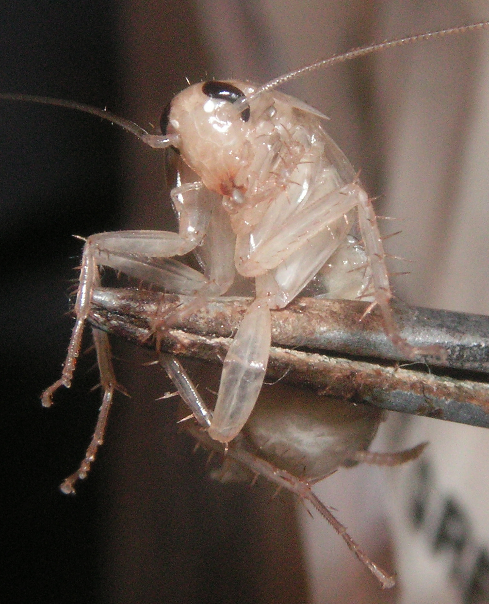 A german cockroach who recently underwent ecdysis. It is now teneral until its cuticle hardens within the next two hours during which it will grow in size and darken in color or "tan".